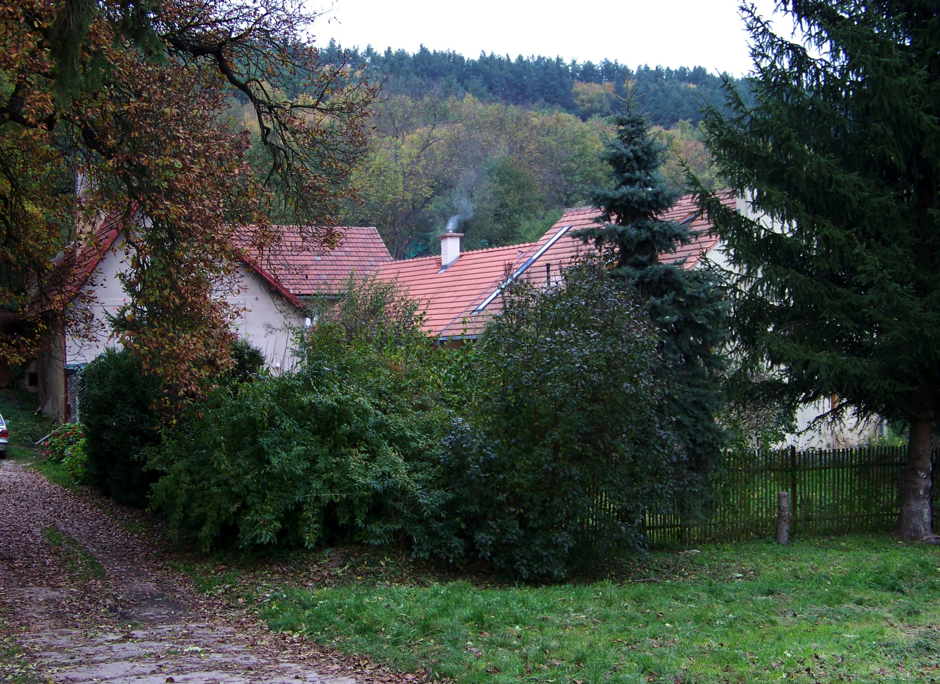 K vinicím 50, 854, Šubrtka, Nebušice, Prague, Czech Republic.